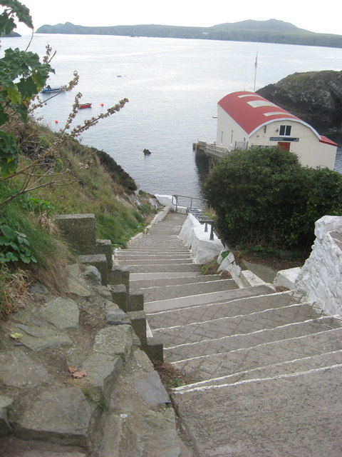 Access steps to the harbour at St Justinian. They are wide in depth in order for cows to walk up and down to go to Ramsey Island